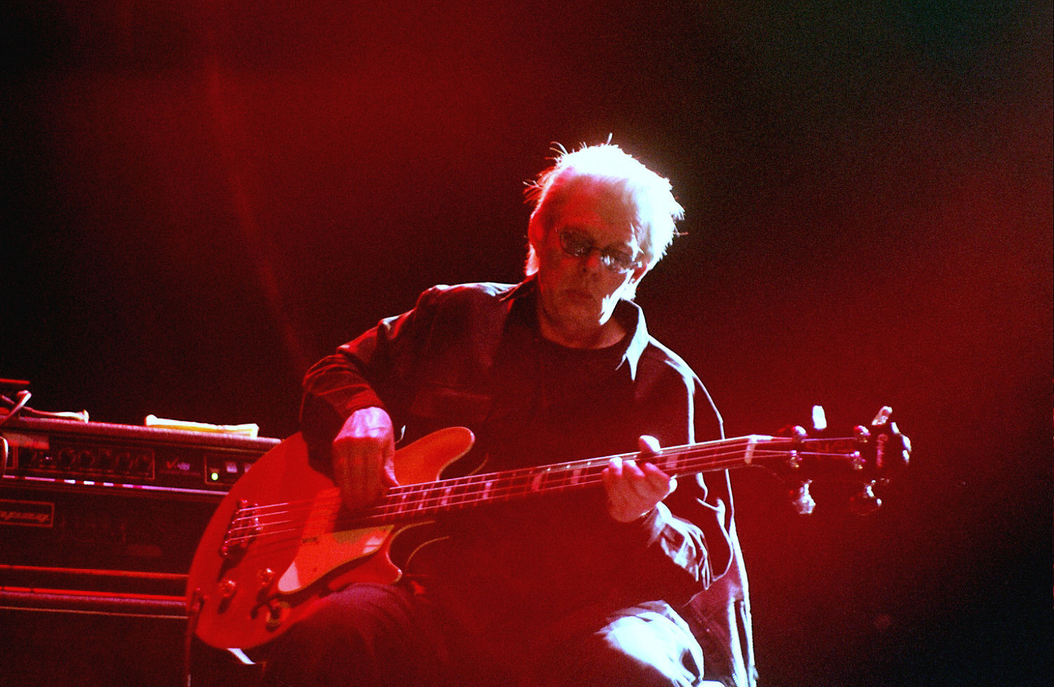 Jack Casady playing with Hot Tuna in 2005.